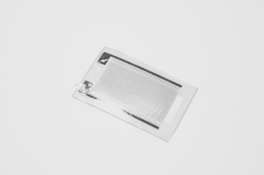 Bimorph bender